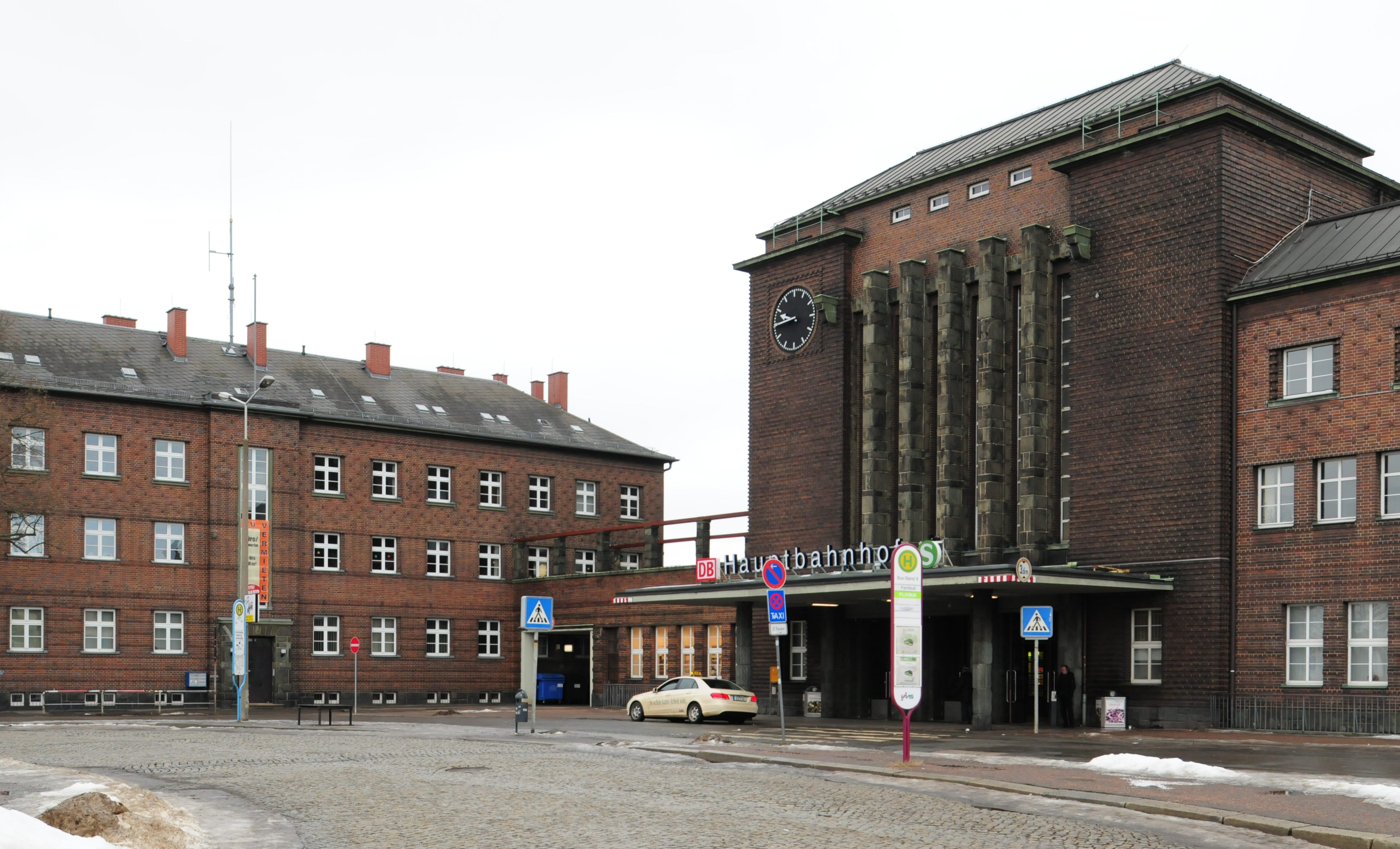 Zwickau, railway central station, main and adjacent building (district Landkreis Zwickau, Free State of Saxony, Germany)